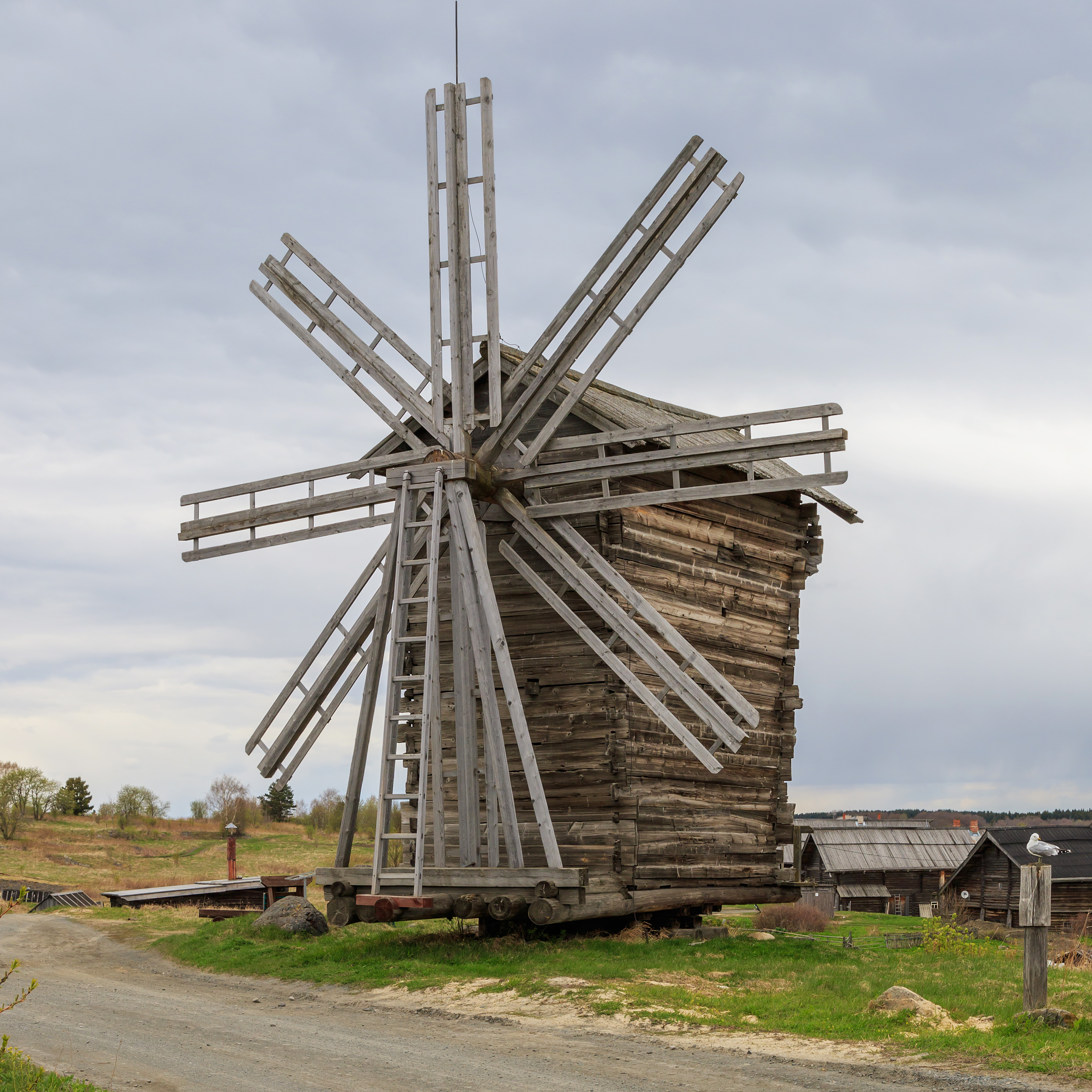 Windmill from Voroniy Ostrov in Yamka village on Kizhi Island, Republic of Karelia (Russia).